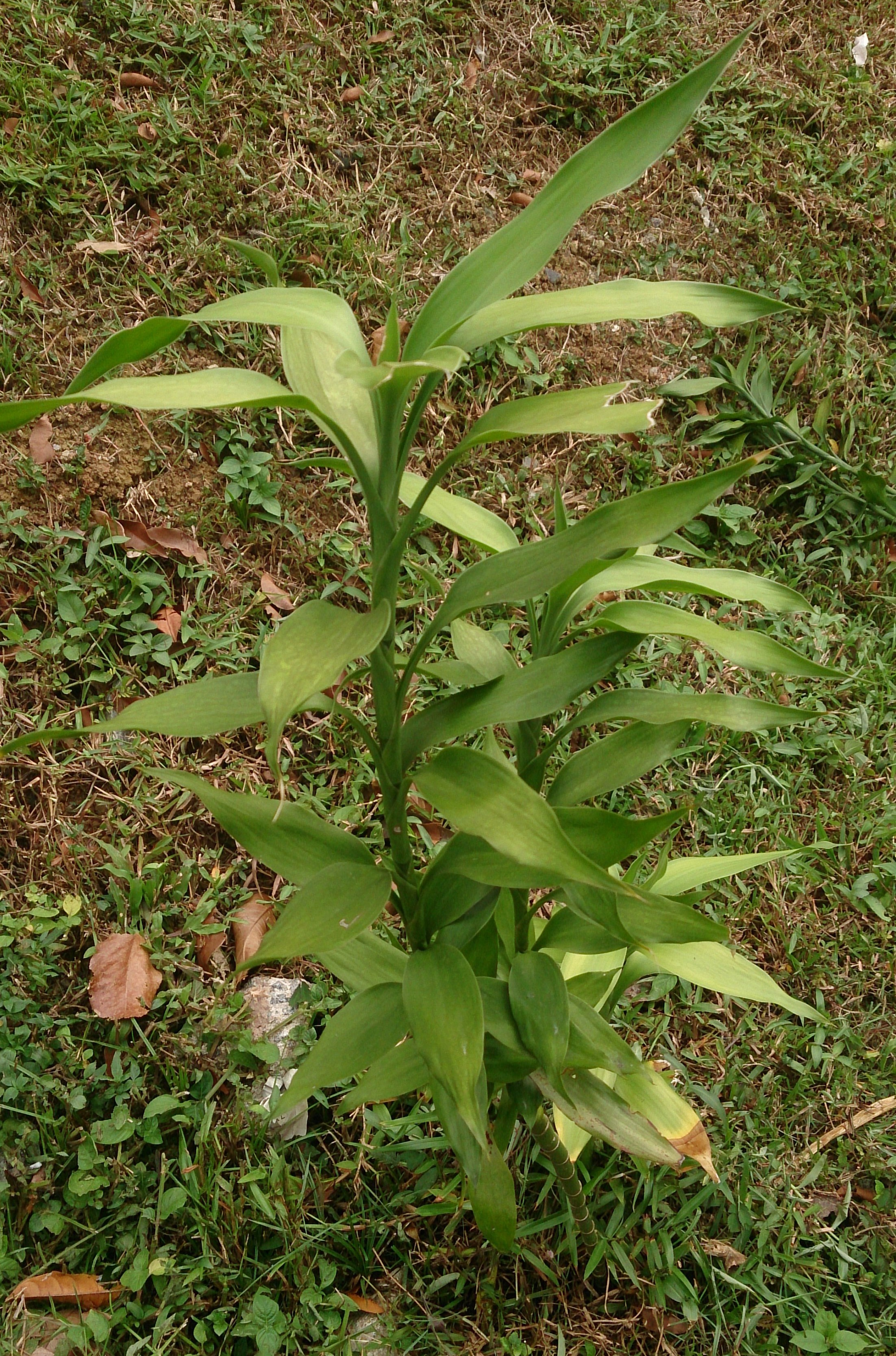 Dracaena braunii. Synonym: Dracaena sanderiana. Common names: Lucky bamboo. Ribbon Plant. 观音竹 (Chinese)